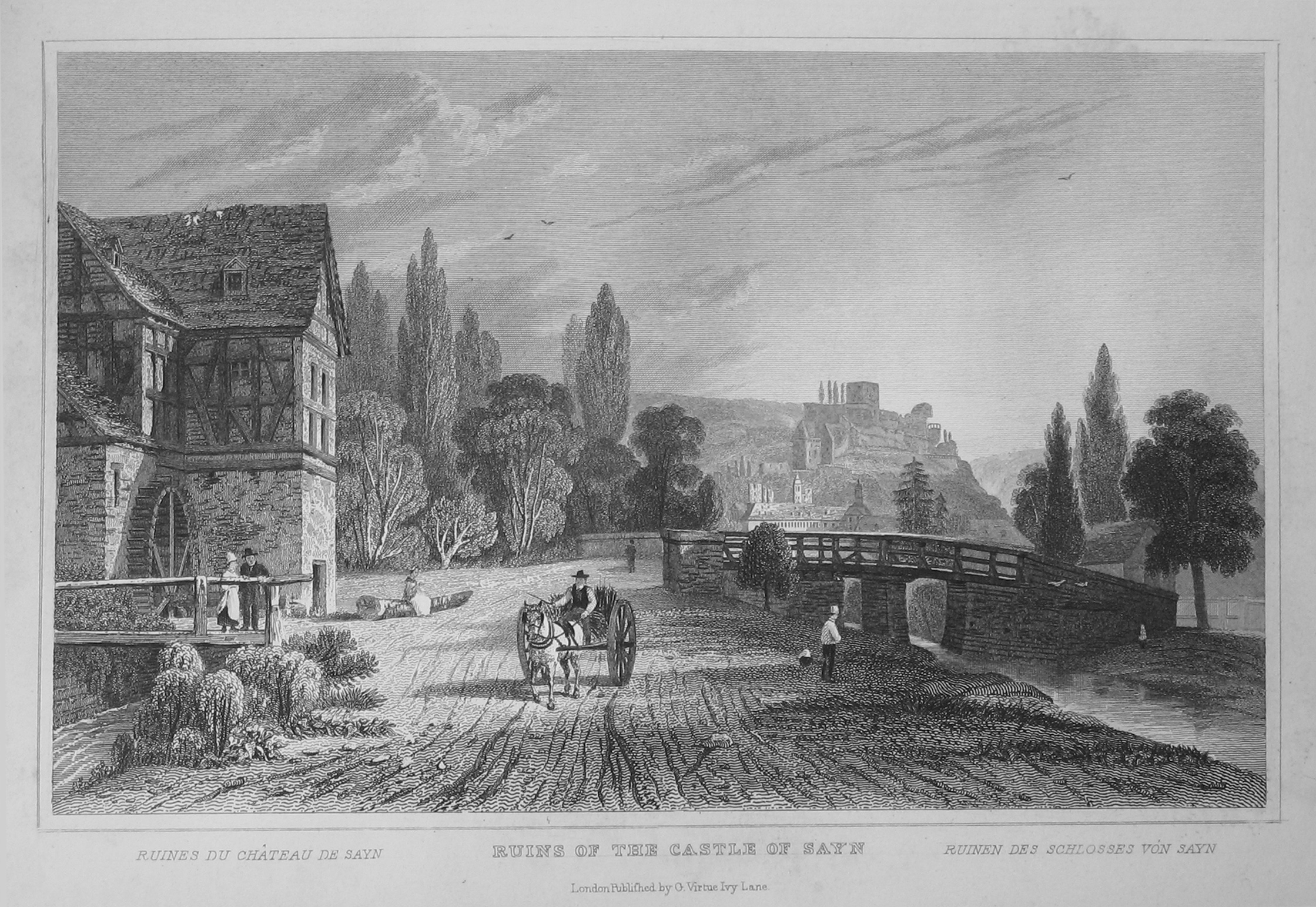 Steel engraving from "Views of the Rhine" by William Tombleson (around 1840): Ruins of the castle of Sayn